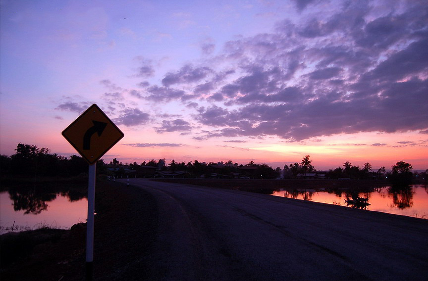 Huai Luang Dam reservoir area